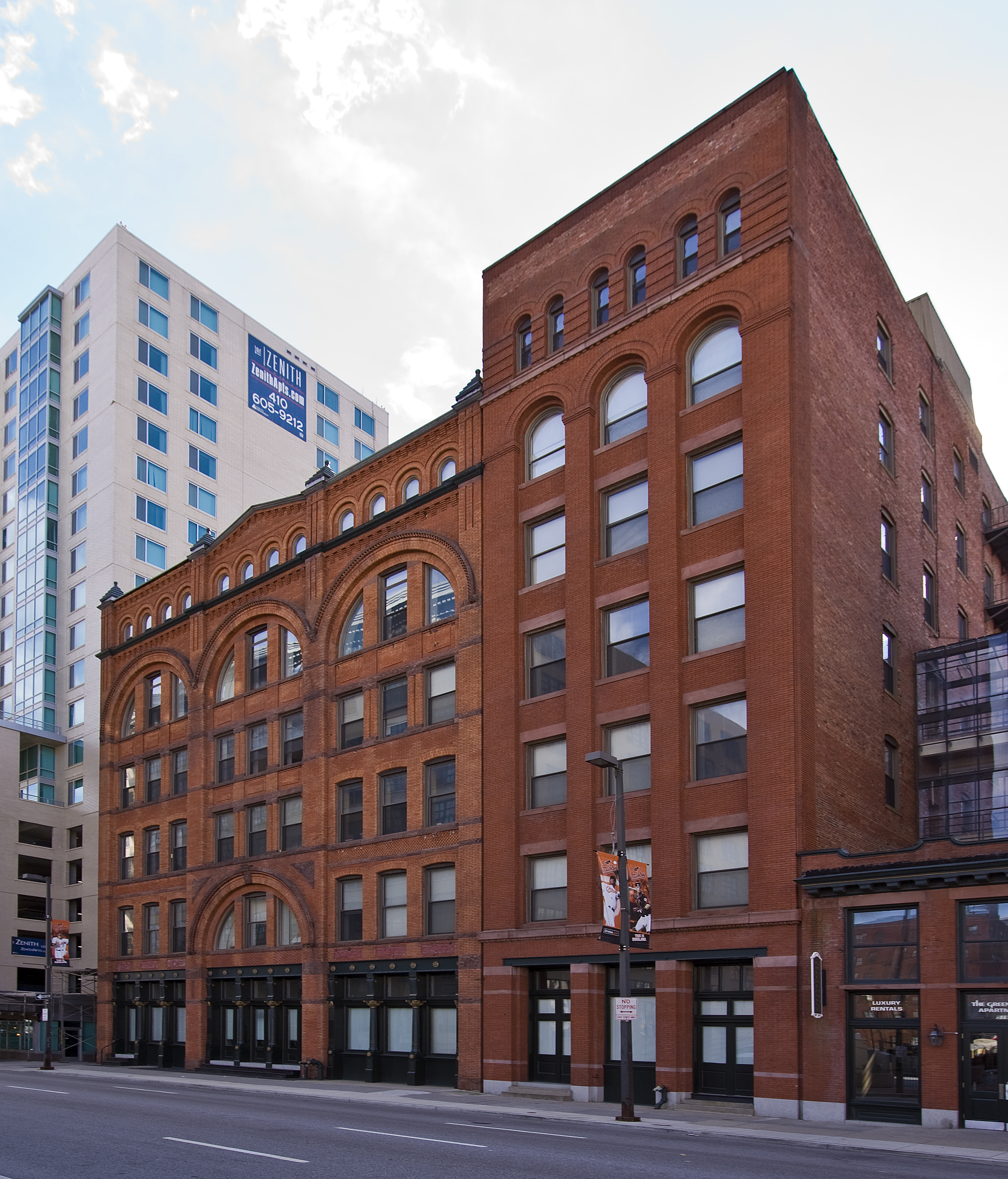 Erlanger Buildings, 519-531 West Pratt Street, Baltimore, Maryland, USA